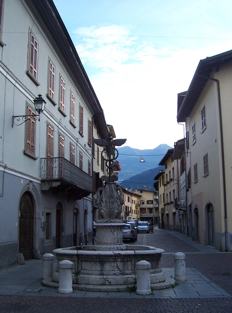 centertown, Capo di Ponte, Val Camonica